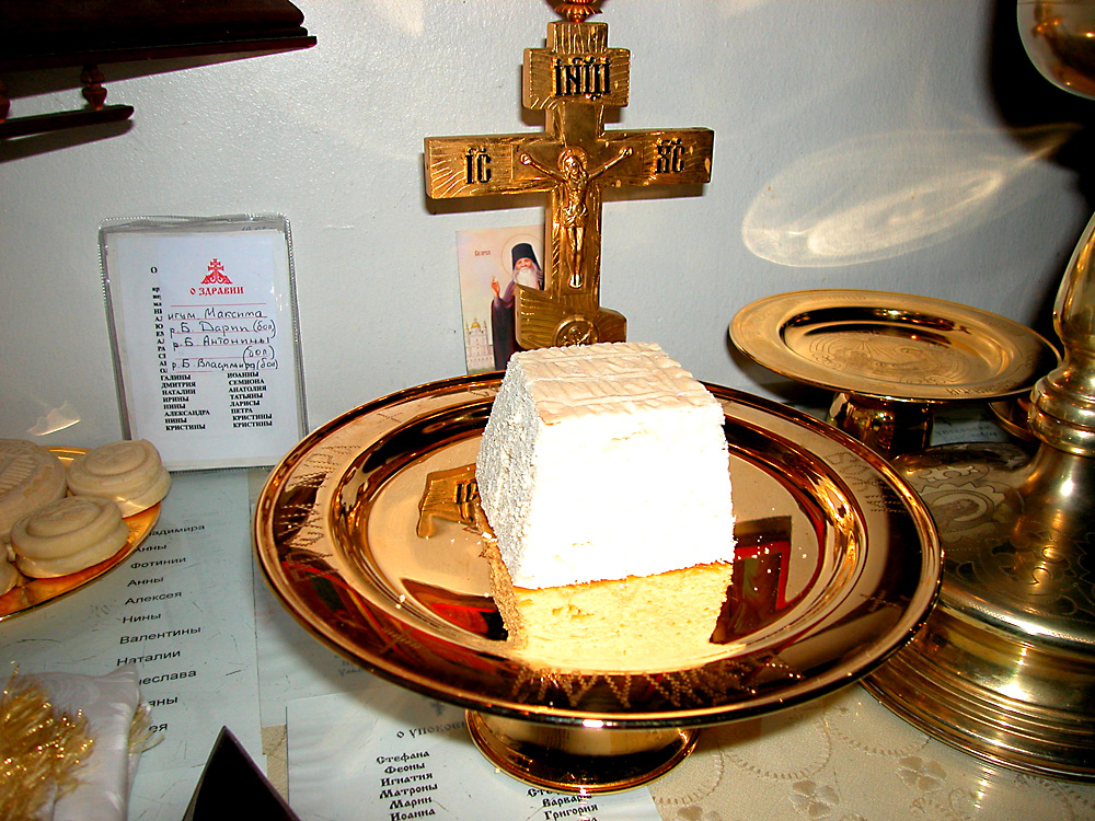 Liturgy of Saint James. Russian Orthodox Church in Duesseldorf. The Lamb (Host) placed on the Diskos (paten) during the Liturgy of Preparation before the beginning of the Divine Liturgy.